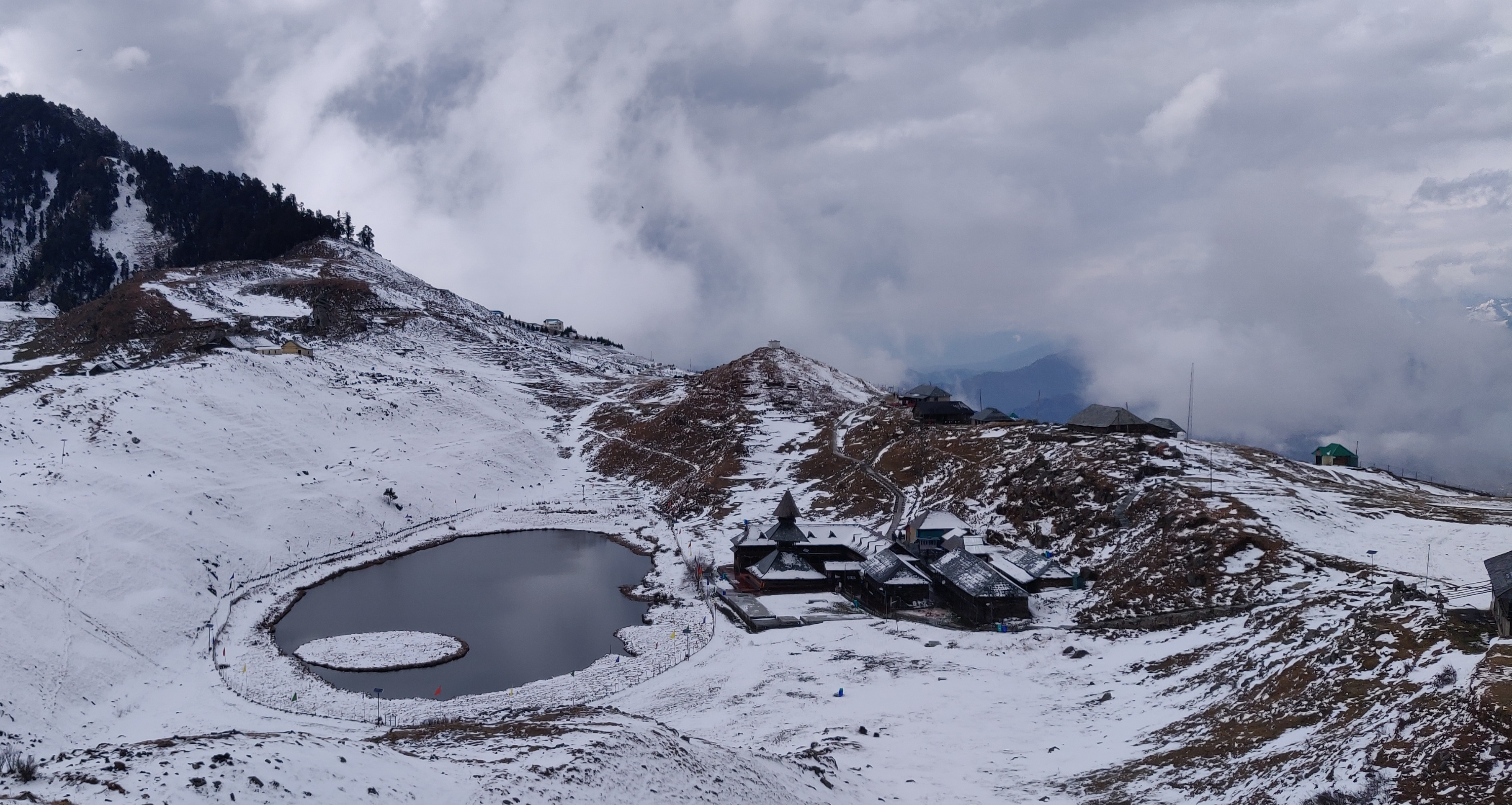 Prashar Lake, Mandi, Himachal Pradesh after receiving fresh snowfall, December 2019.